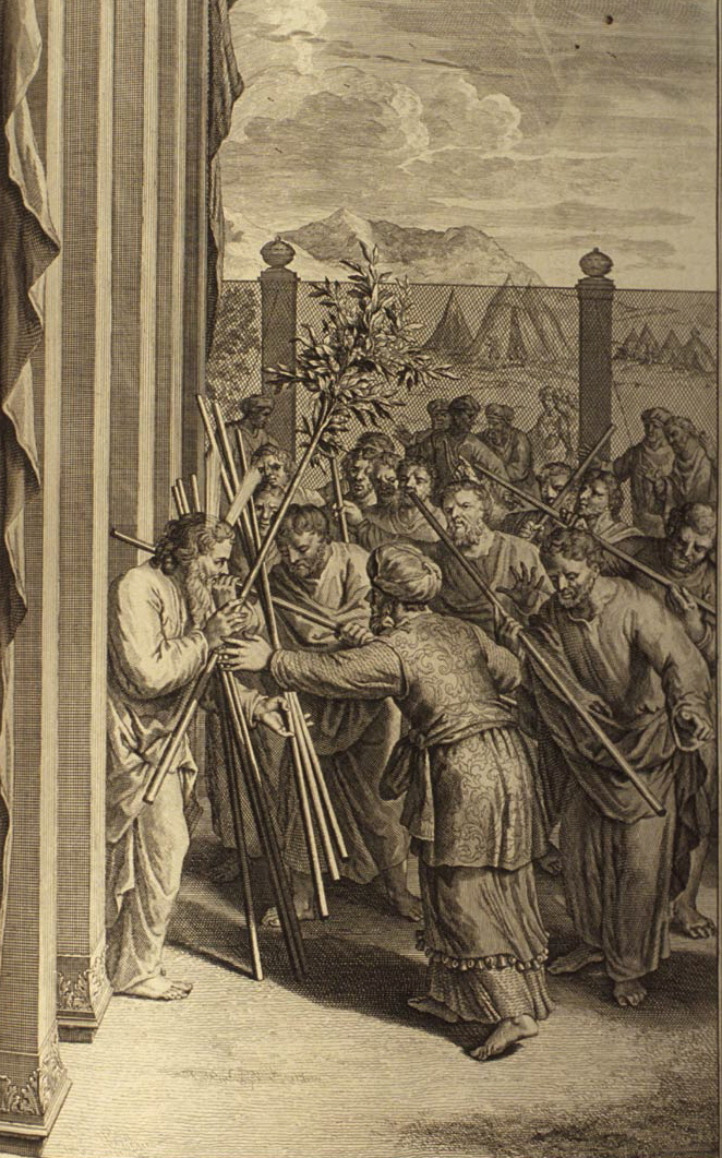 Aaron's Rod Budding, as in Numbers 17:8-10, illustration from the 1728 Figures de la Bible, illustrated by Gerard Hoet (1648-1733), and others, published by P. de Hondt in The Hague in 1728; image courtesy Bizzell Bible Collection, University of Oklahoma Libraries